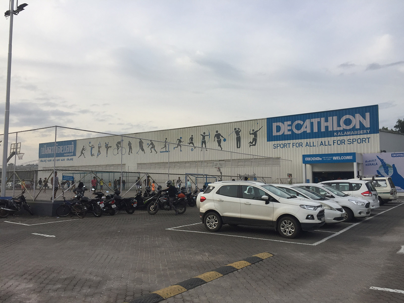 Decathlon Store Kalamassery, Kochi